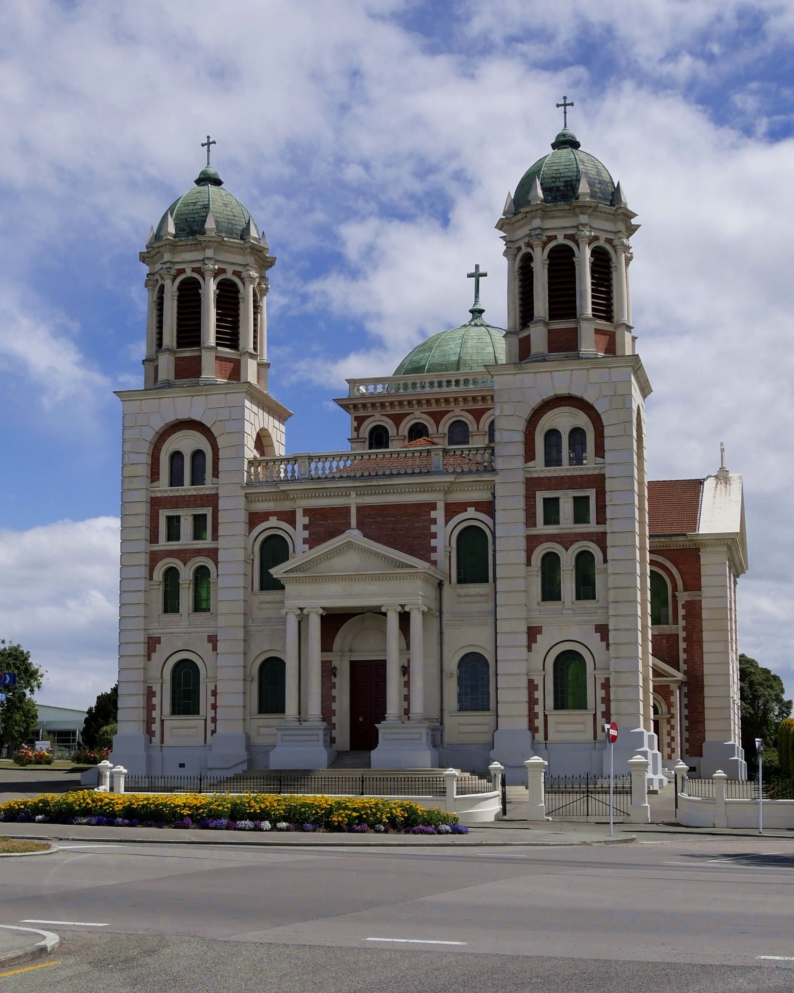 Sacred Heart Basilica, Timaru, Timaru District, Canterbury Region, South Island, New Zealand (foundation stone was laid on the 6th of February 1910, finished and opened in October 1911)